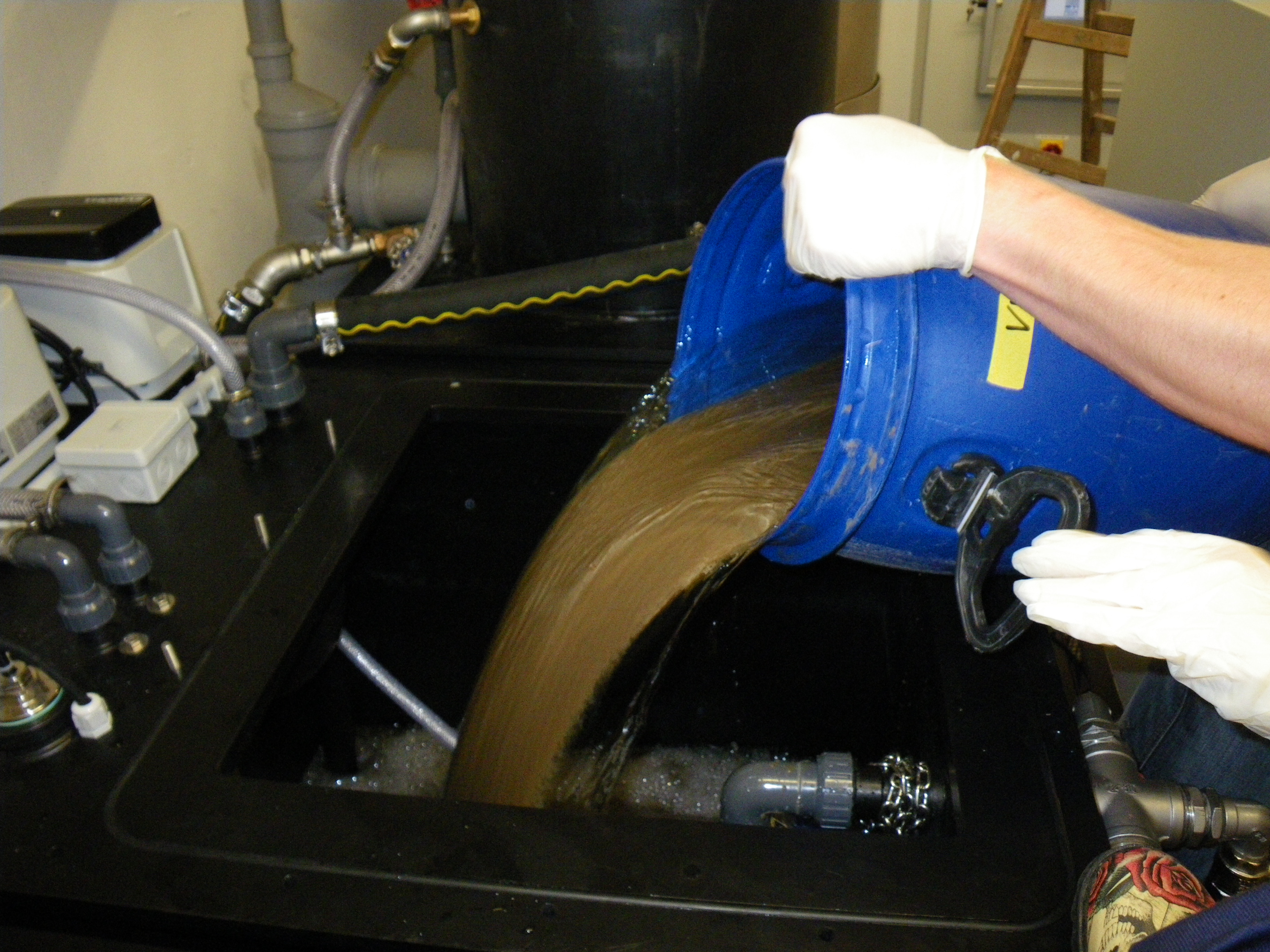 Photo by Katharina Löw, May 2011